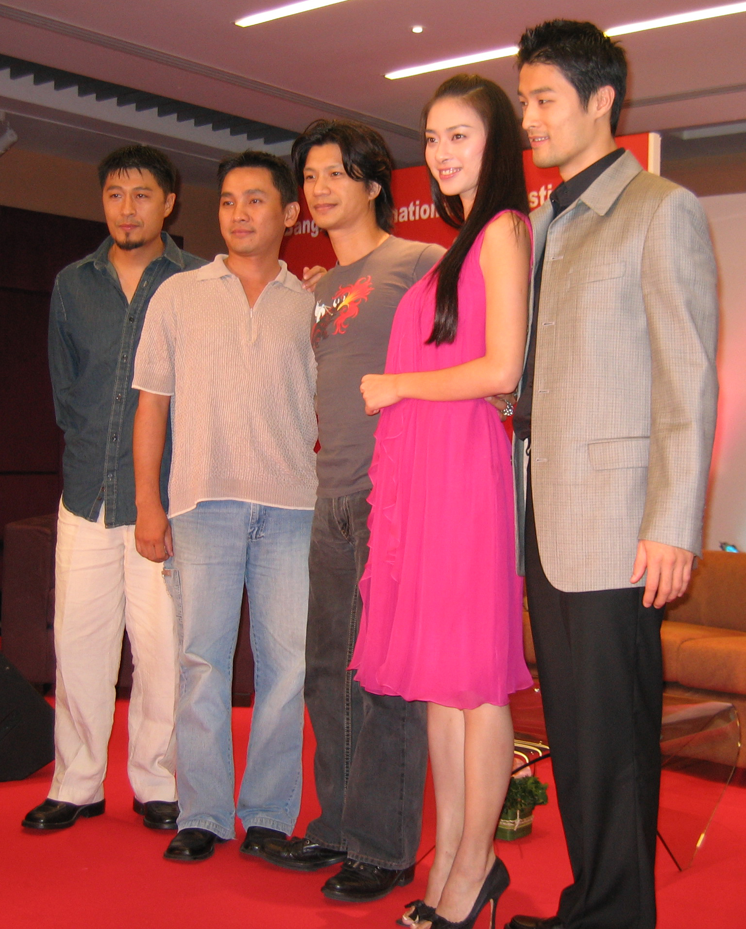 Cast and crew of the The Rebel during a press conference at the 2007 Bangkok International Film Festival at SF World in CentralWorld, Bangkok. From left, director-producer Charlie Nguyen, producer Jimmy Pham Nghiem, actor Dustin Nguyen, actress Ngo Thanh Van, and actor-screenwriter-producer Johnny Tri Nguyen.